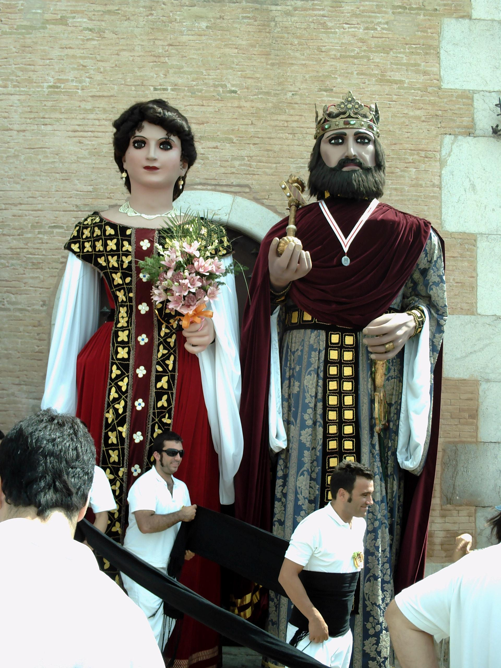 Giants in folkloric parade - Sitges